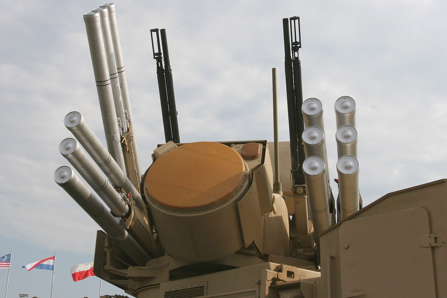 Pantsir-S1 Weapon System. In the Center the EHF phased-array tracking Radar. Two twin-barrel 2A38M automatic anti-aircraft guns and 12 ready to launch missile-containers each containing one 57E6-E command guided surface to air missile.